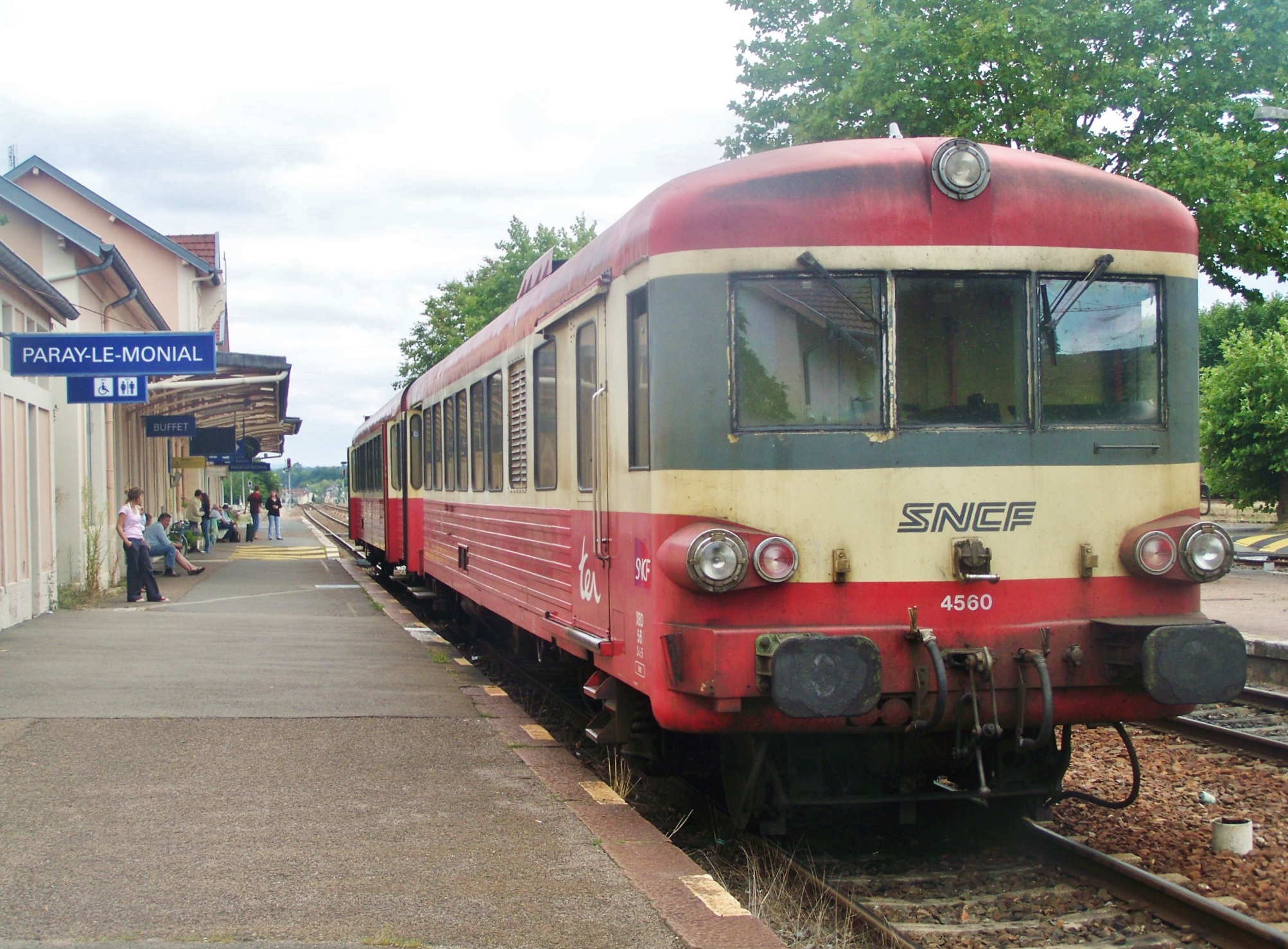 Sight of a French SNCF Class X 4500 at Paray-le-Monial railway station, waiting for its departure to Chalon-sur-Saône on journey n° 93303, in Saône-et-Loire.